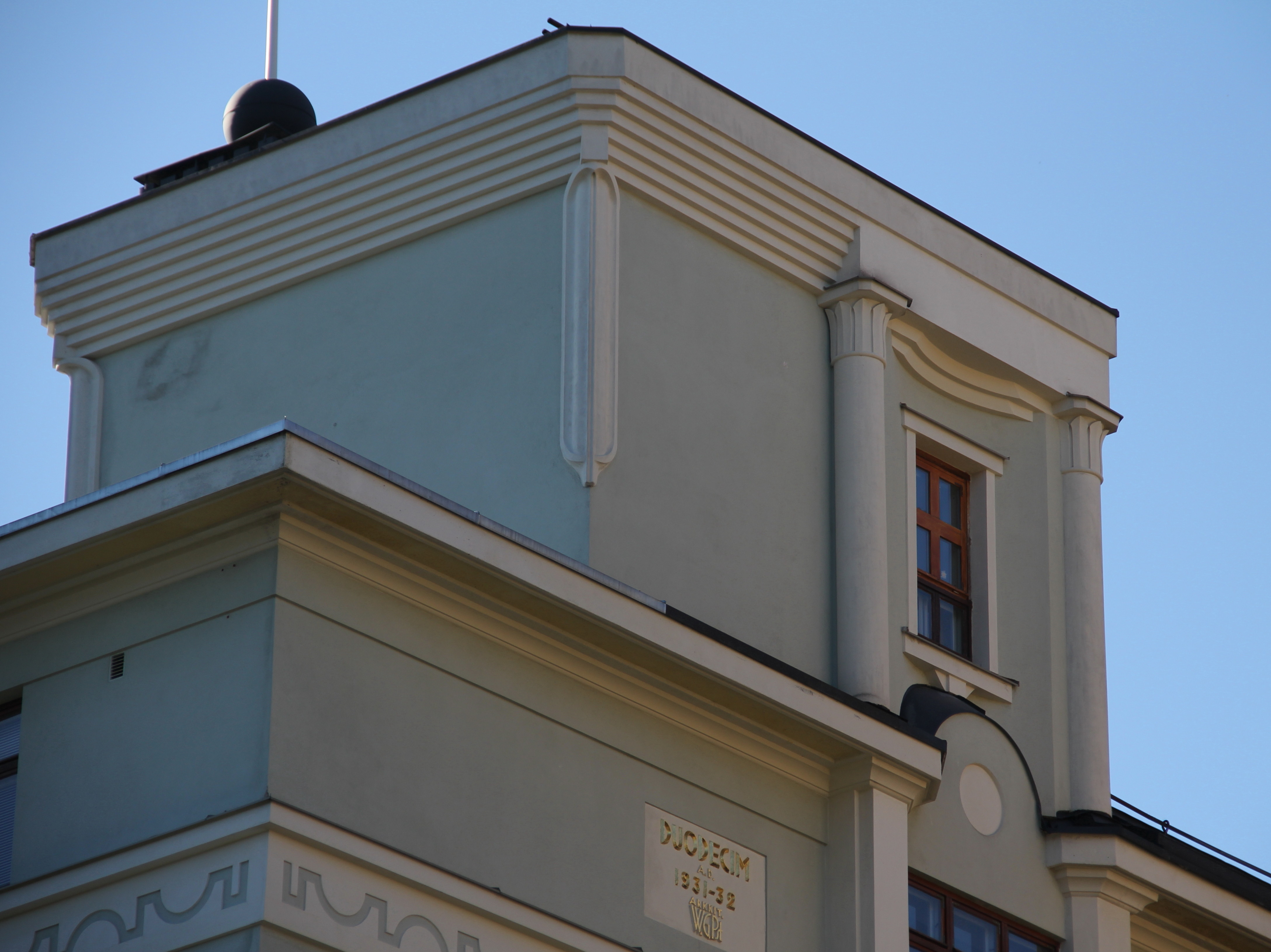 Mehiläinen Hospital, Helsinki, Finland. - Corner tower. Built in 1931-1932 by The Finnish Medical Society Duodecim, designed by architect W. G. Palmqvist.